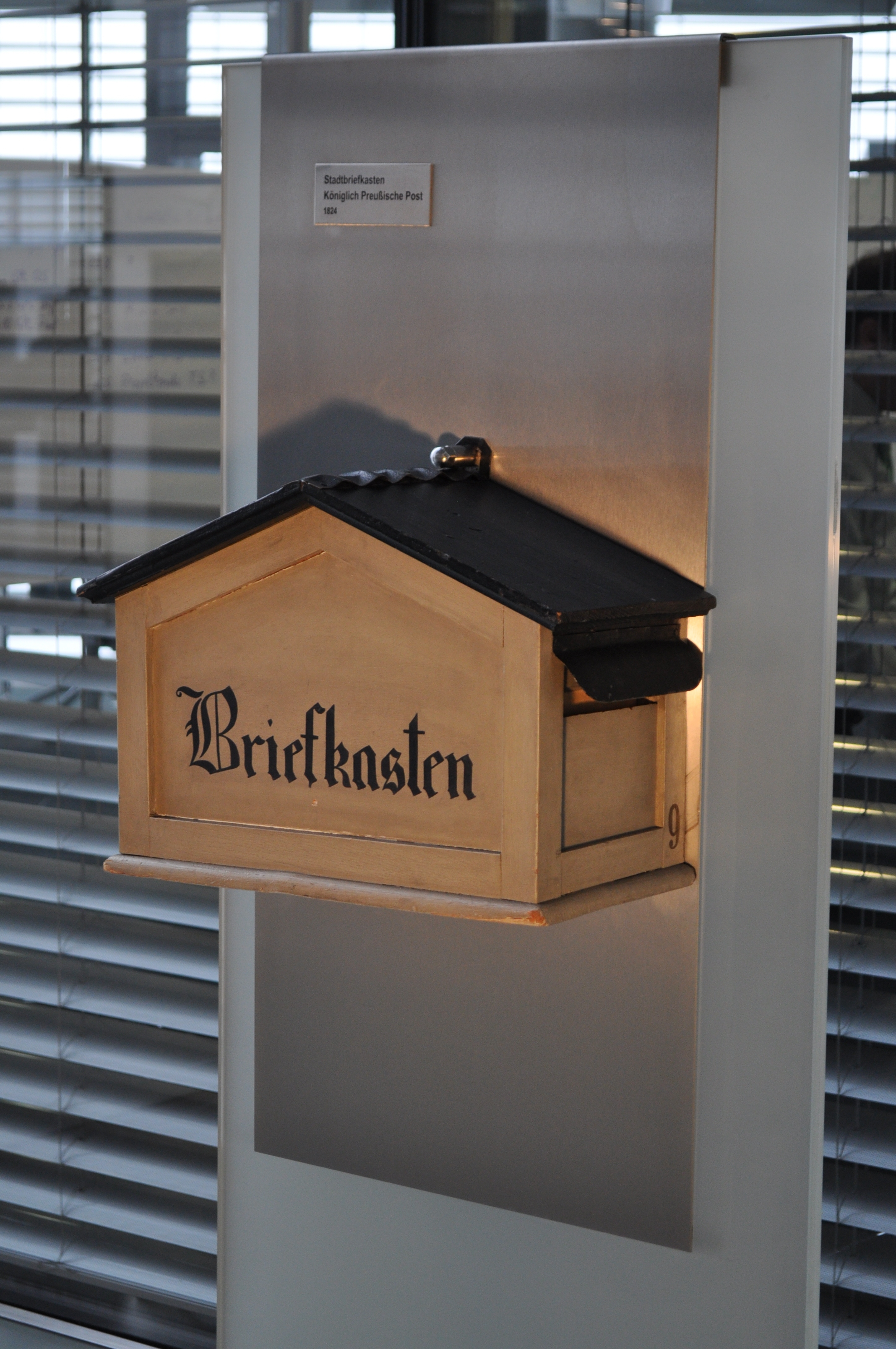 Historical post boxes